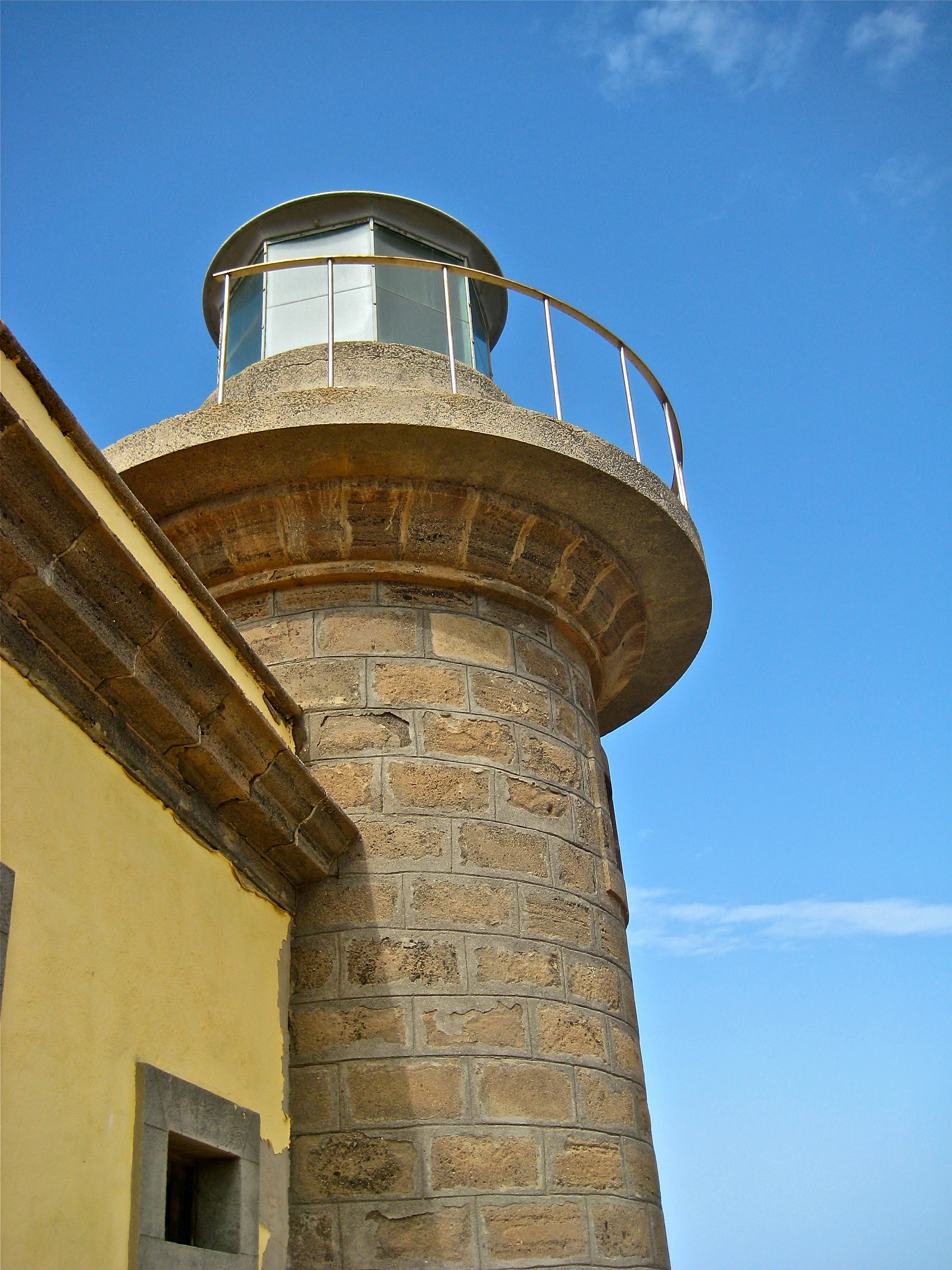 One of few buildings at Isla de Lobos, Fuerteventura.